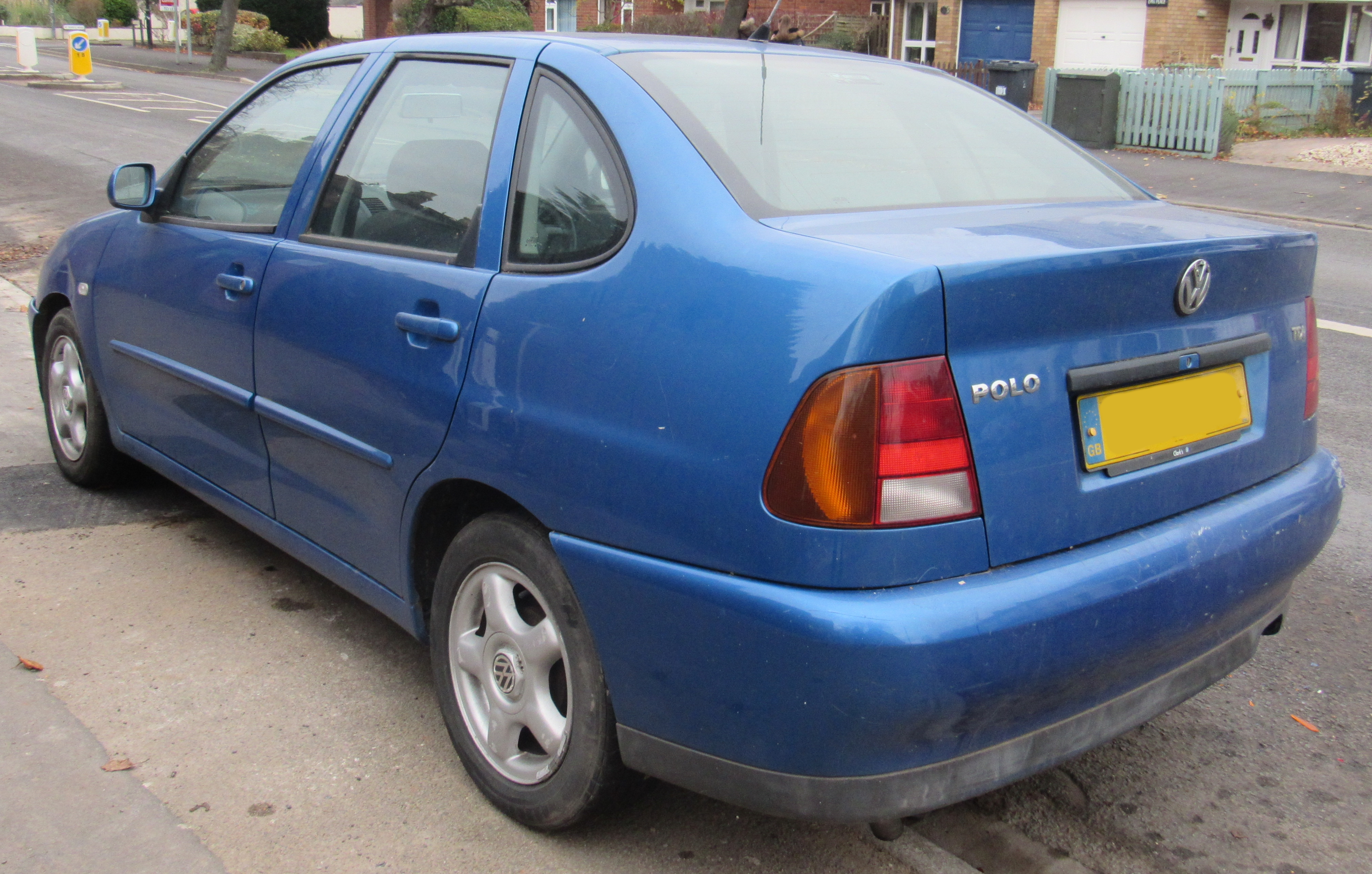 2001 Volkswagen Polo S TDi 1.9 Rear Taken in Leamington Spa